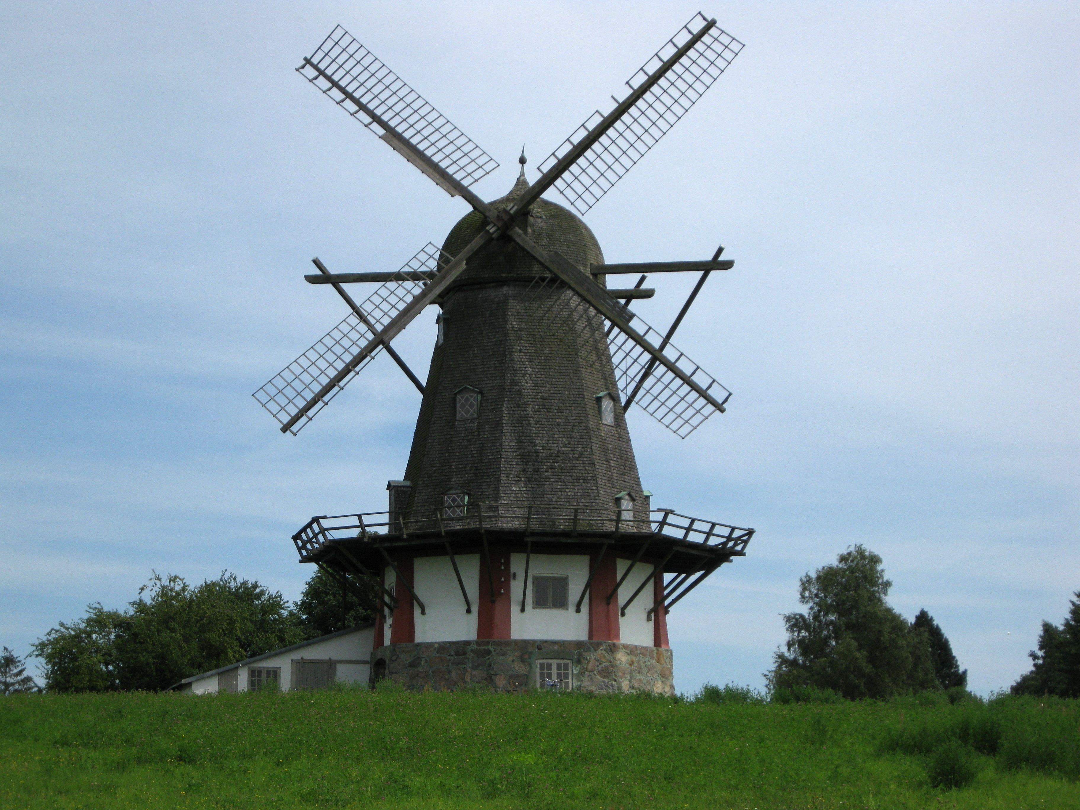 The wind mill "Bogø Mølle" on the small island "Bogø" (north of the island Falster) in east Denmark.